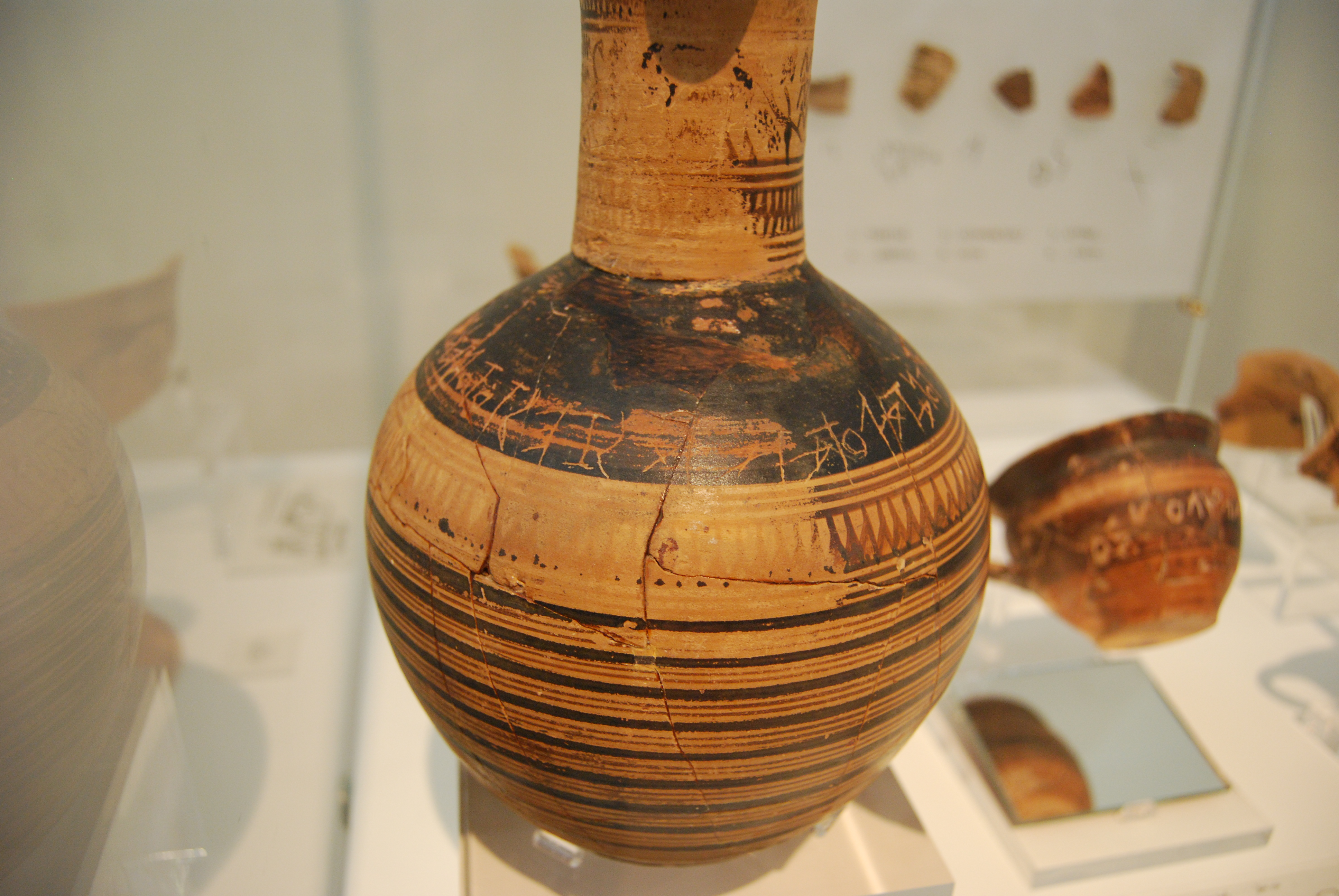 The oinochoe containing the inscription: Athens, National Archaeological Museum: ... ἀταλότατα παίζει, τô τόδε...